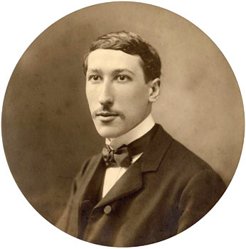 French philisopher Réne Guénon in 1925